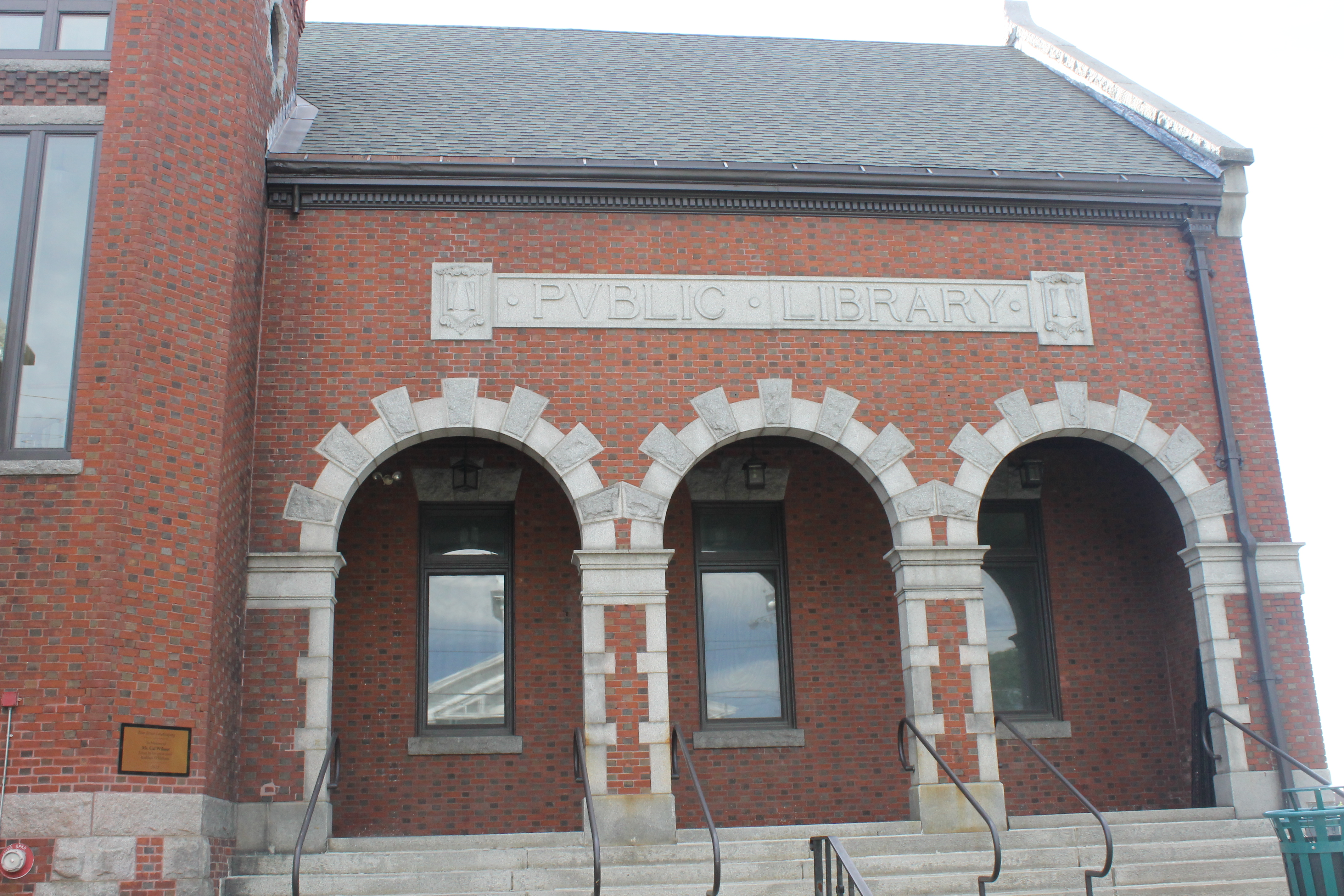 I took photo of Waterville Public Library with Canon camera.